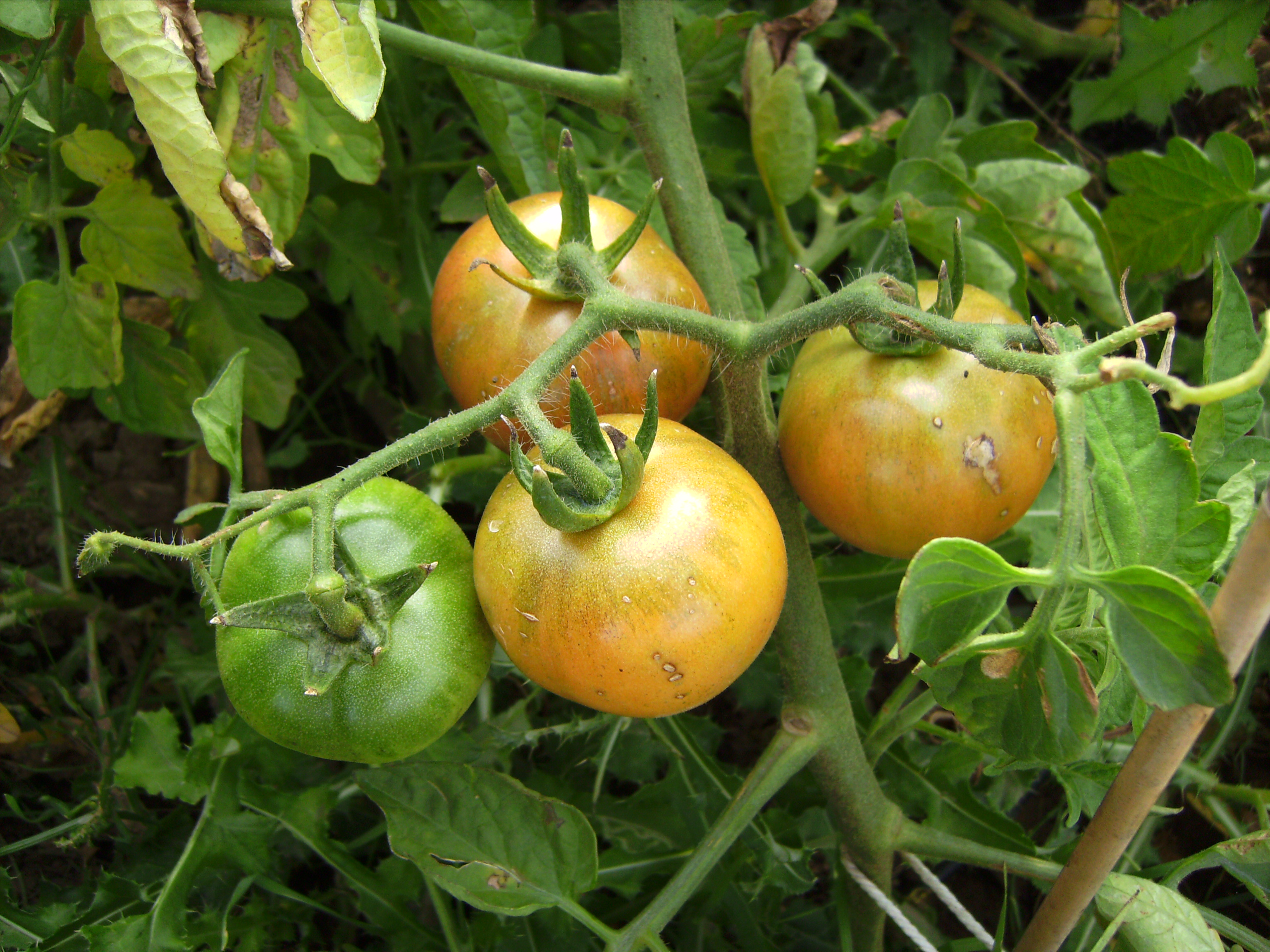 Tomato cultivar mallorquí (Castellltallat, Catalonia)